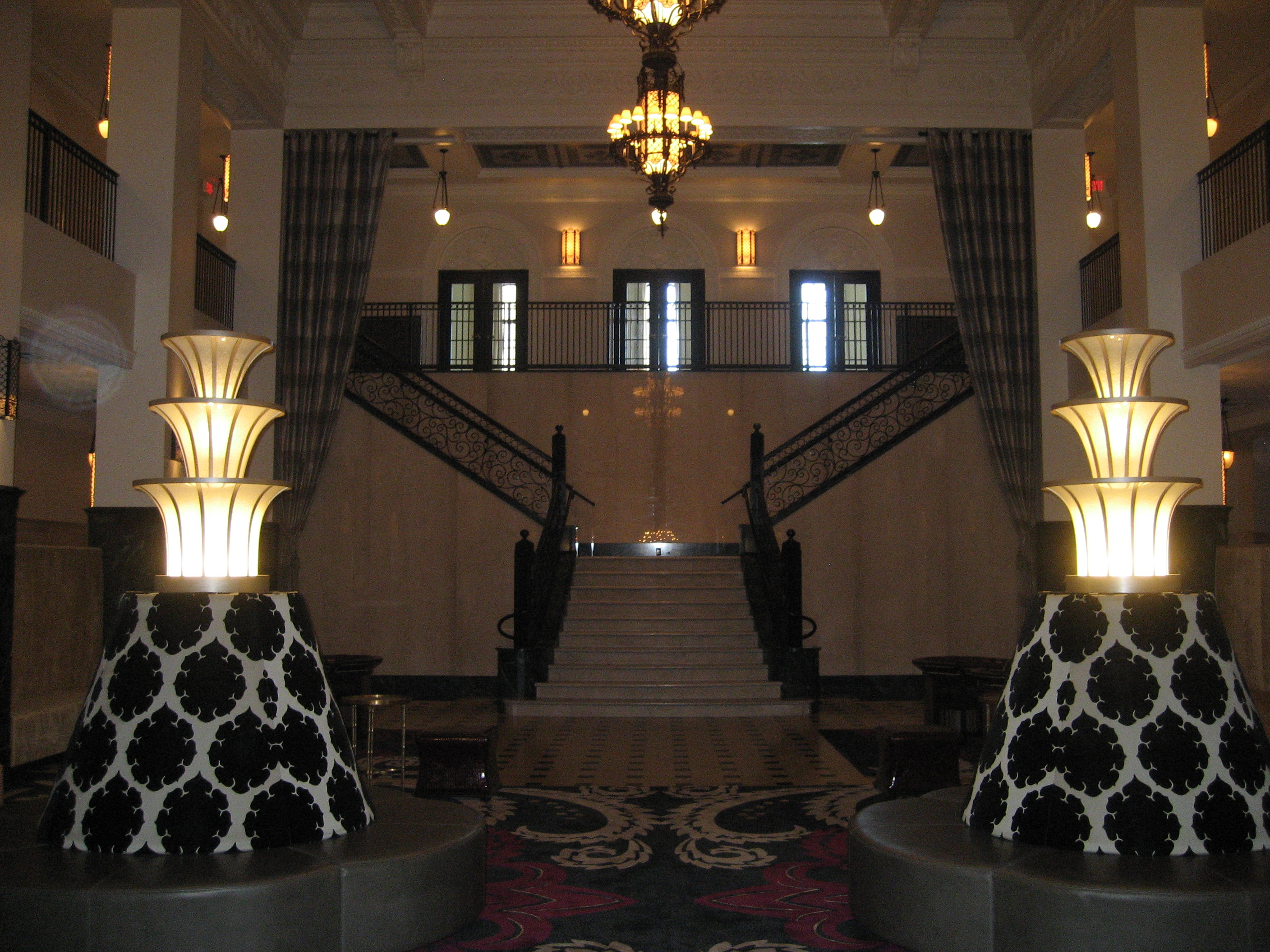 This is a photograph I took in May 2010 of the ground floor lobby of the Mayo Hotel, Tulsa.